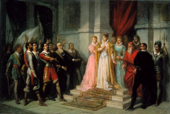 The Arrest of the Duchess of Mantua.